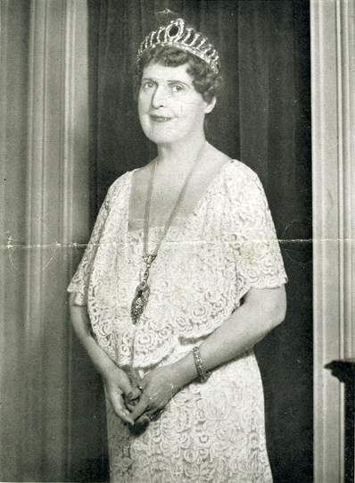 Flyer recto.